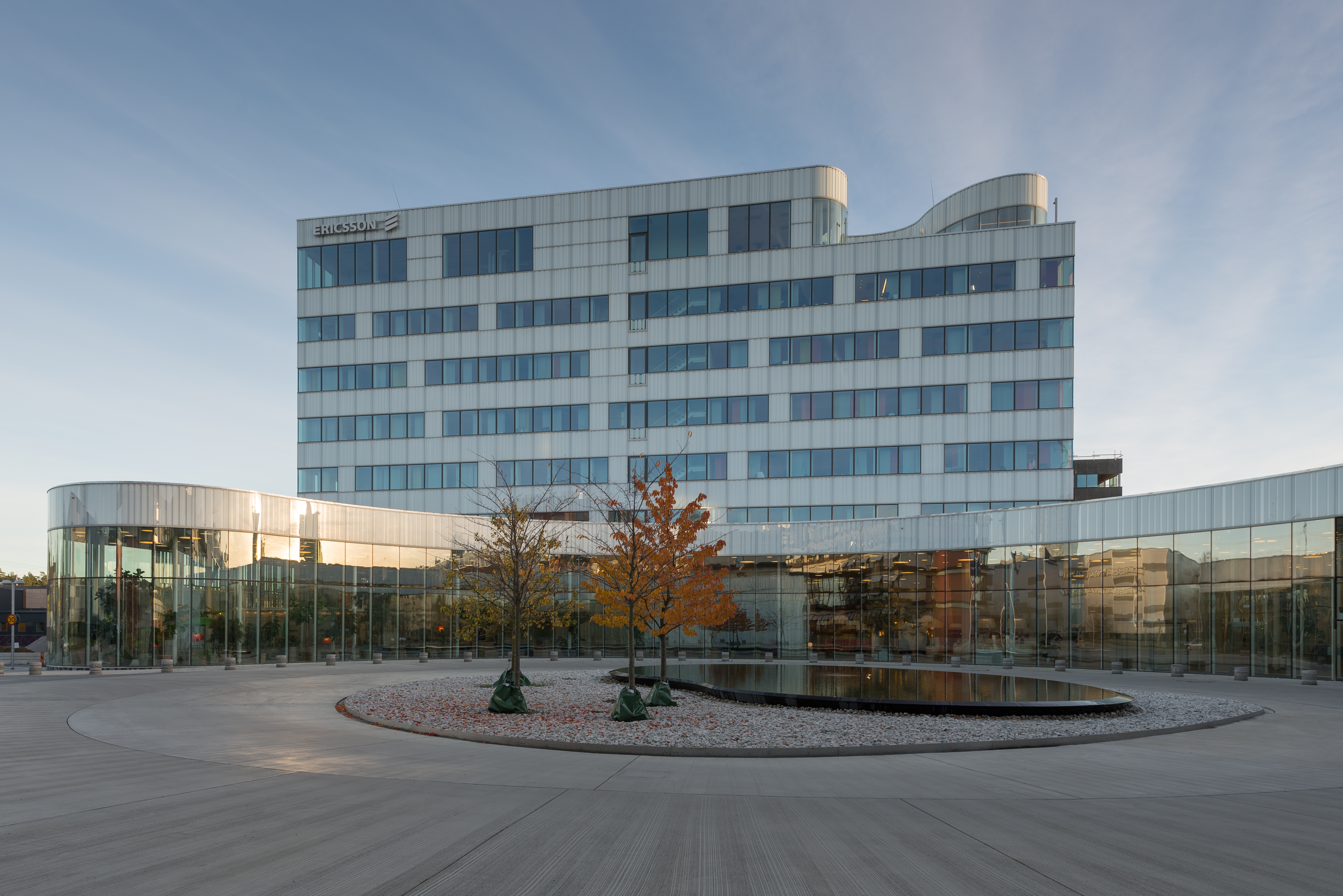 Isafjord 1,HQ for Ericsson in Kista, Stockholm. Built 2012. Arcitect: Wingårdh arkitektkontor.